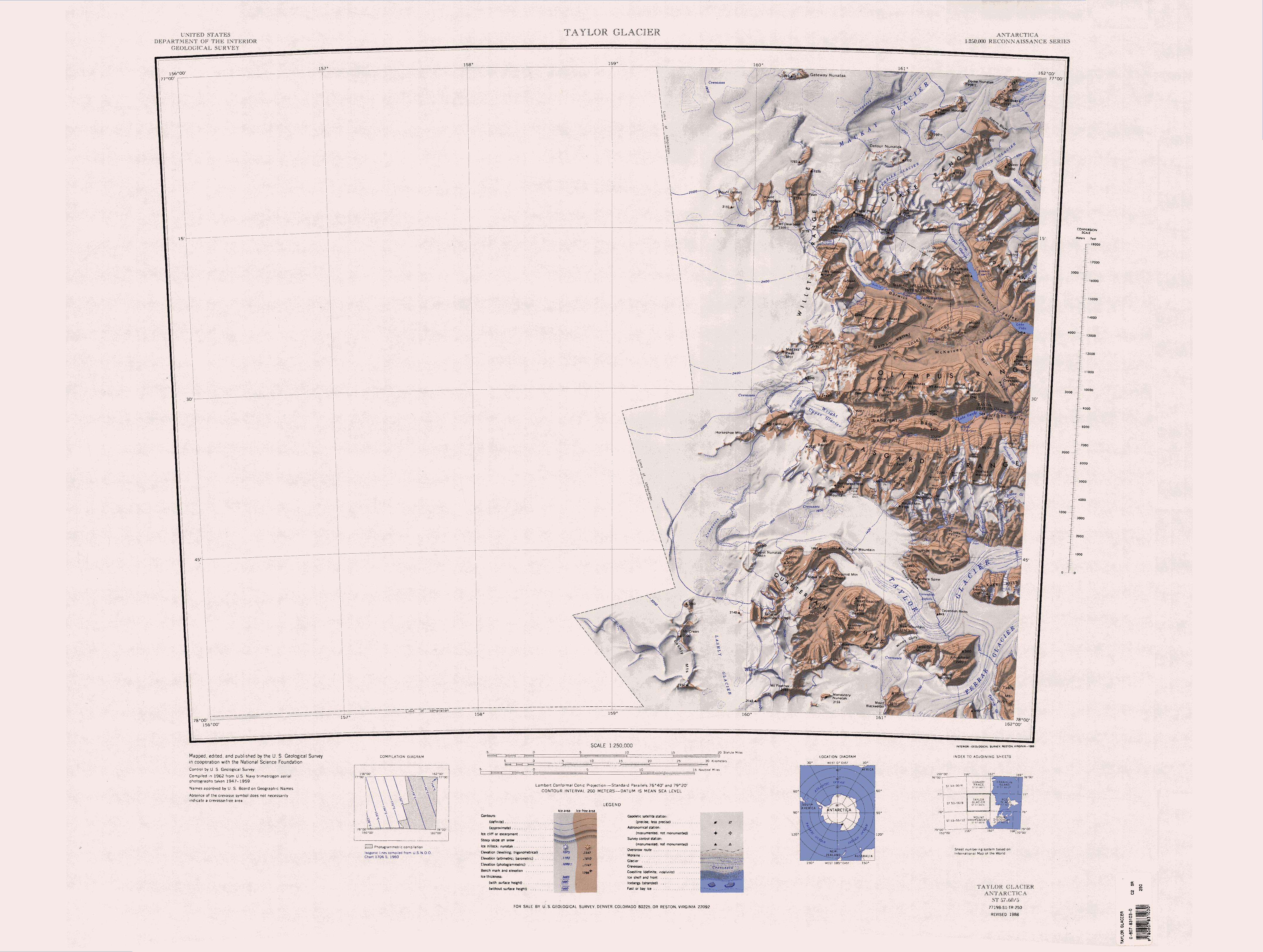 1:250,000-scale topographic reconnaissance map of the Taylor Glacier area from 156°-162'E to 77°-78°S in Antarctica. Mapped, edited and published by the U.S. Geological Survey in cooperation with the National Science Foundation.